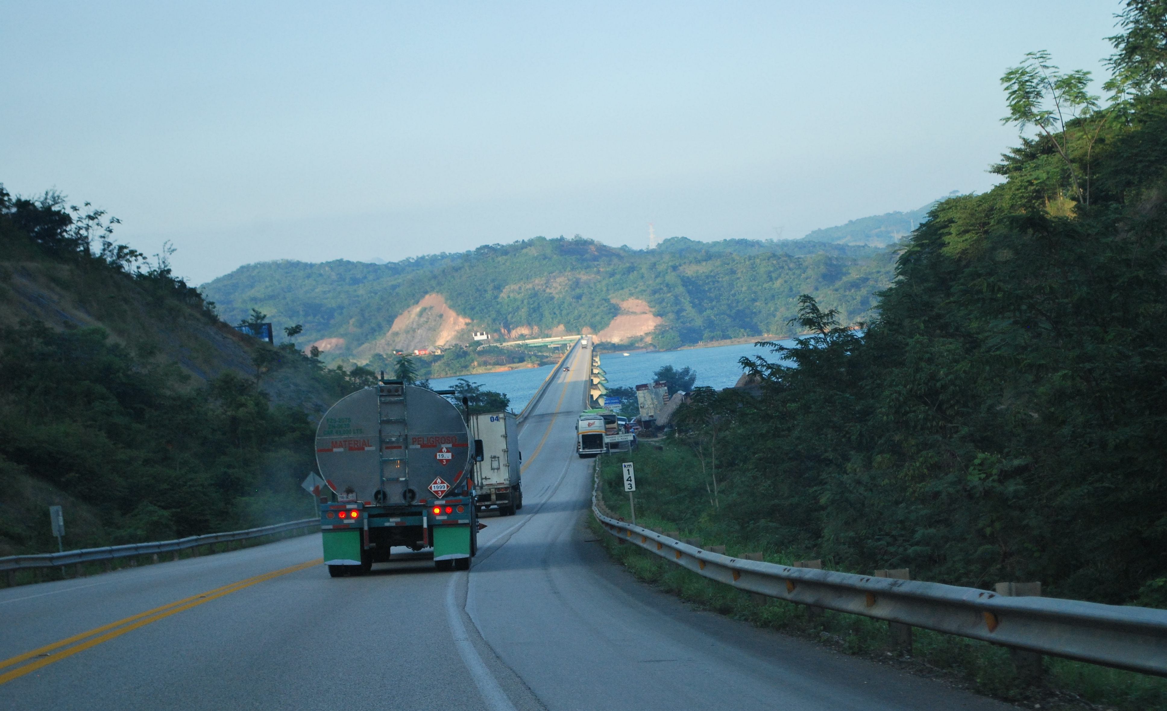 Approaching the Puente de Chiapas over the Malpaso Dam in Chiapas